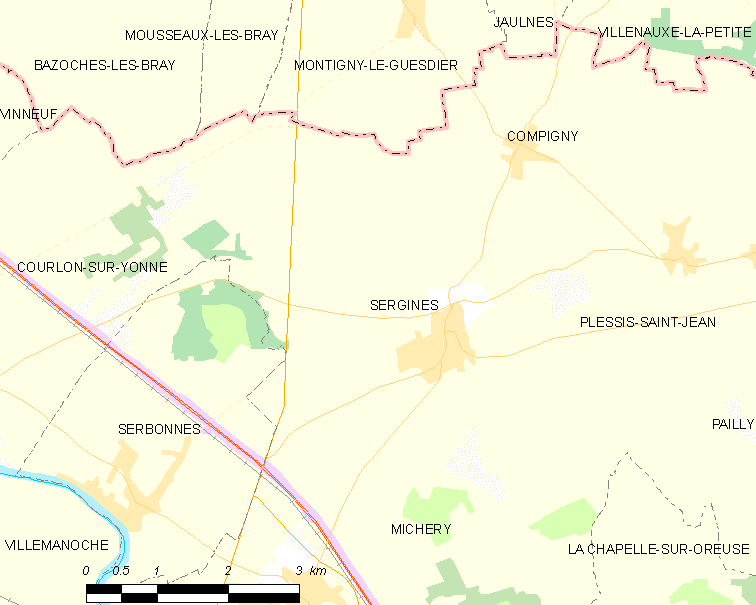 Map of French municipality Sergines